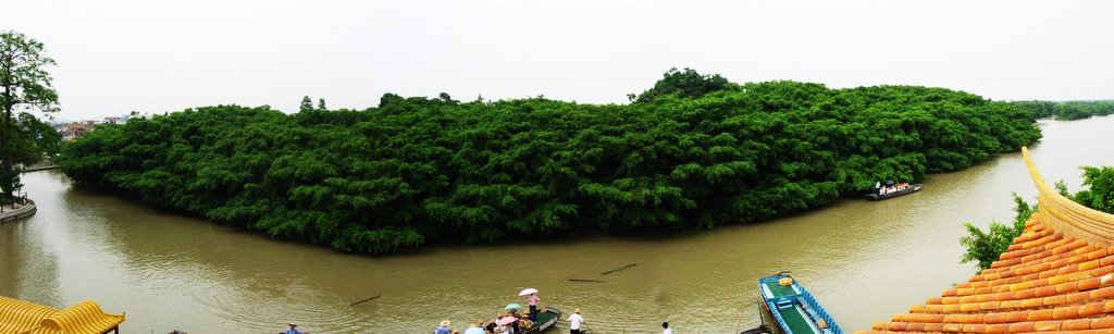 'Birdie Heaven' - a forest habitat of Chinese Banyan, Ficus microcarpa, in Jiangmen, China.